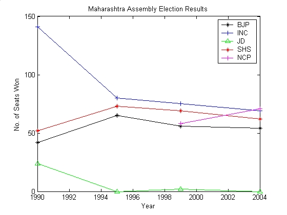 Results of Vidhan Sabha elections in Maharashtra